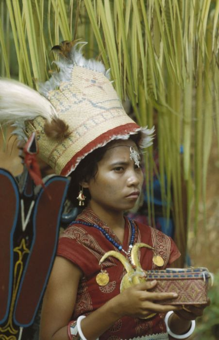 A woman at Kota Ambon (Taman Wisata) showing clothes and traditions of one of the Southeastern Maluku Islands